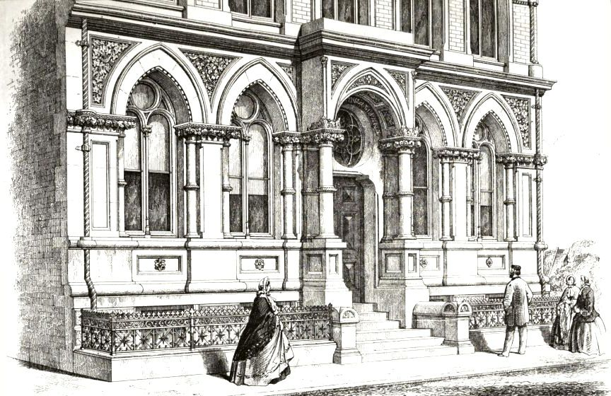 1865 lithographed drawing by Thomas Ambler, architect, of 30 Park Place, Leeds, West Yorkshire, England.